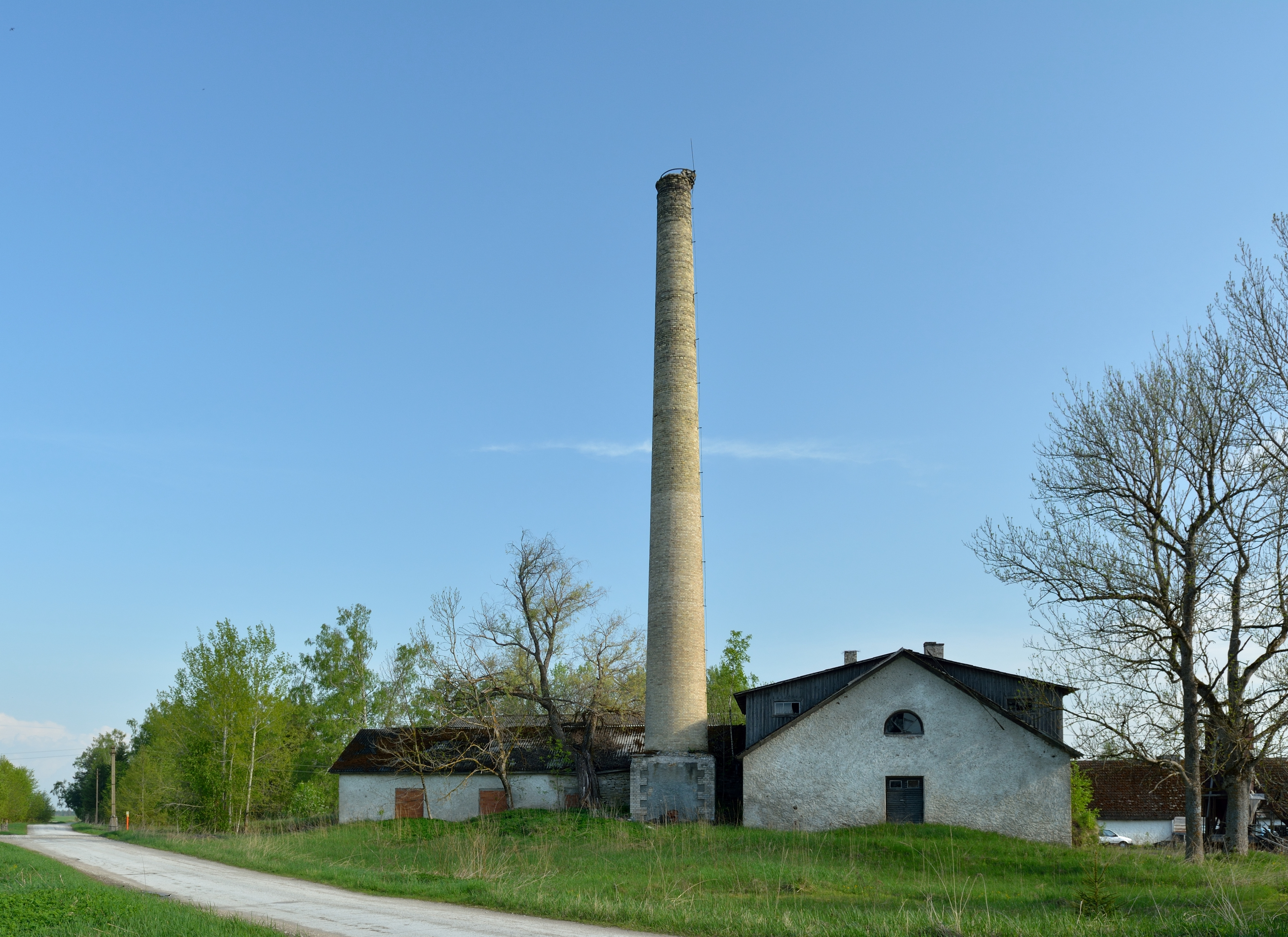 Lammasküla manor distillery